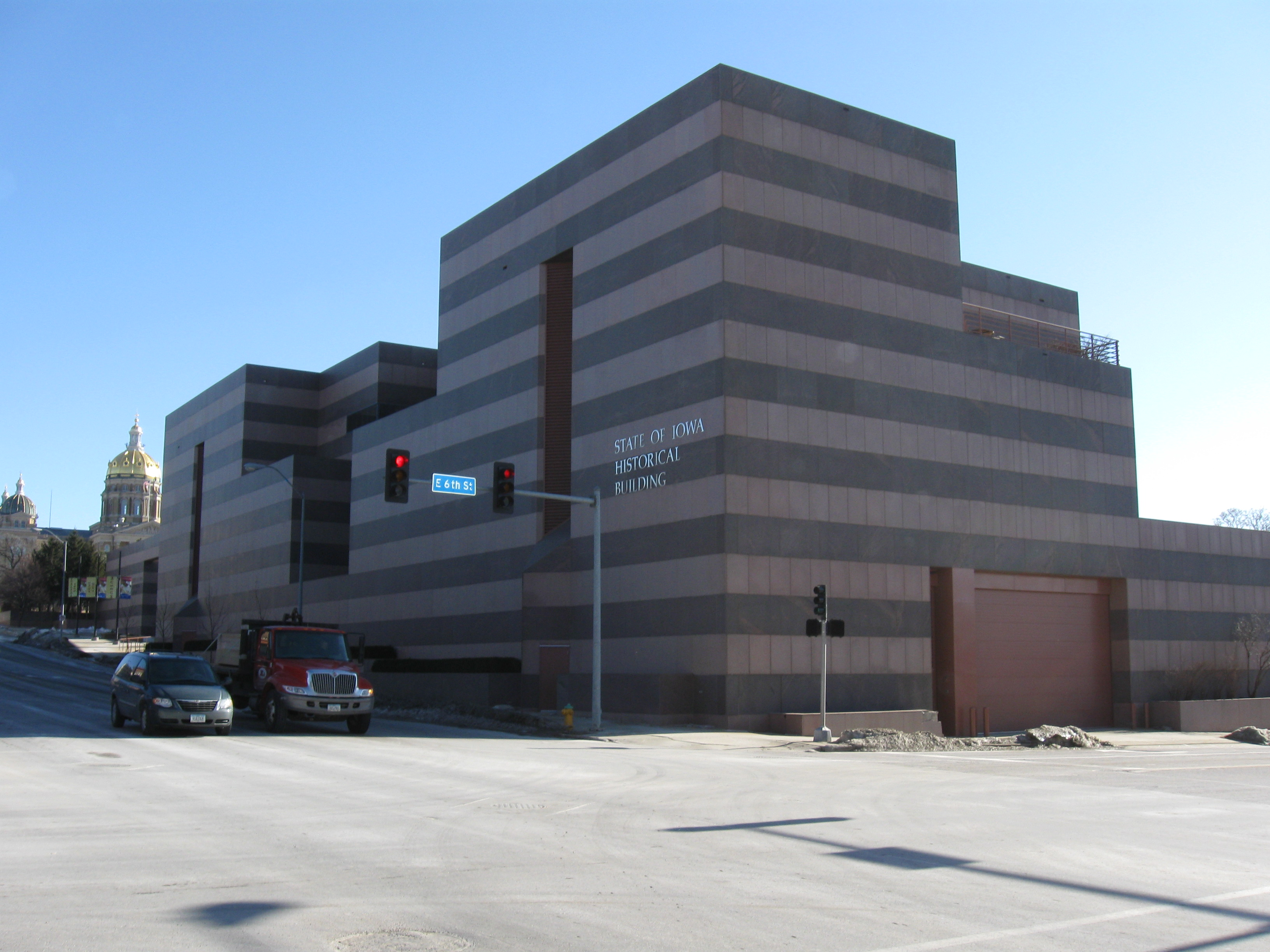 State Historical Society of Iowa building, Des Moines. Virtually windowless polised pink marble. Bill Whittaker (talk) 14:53, 24 February 2009 (UTC)